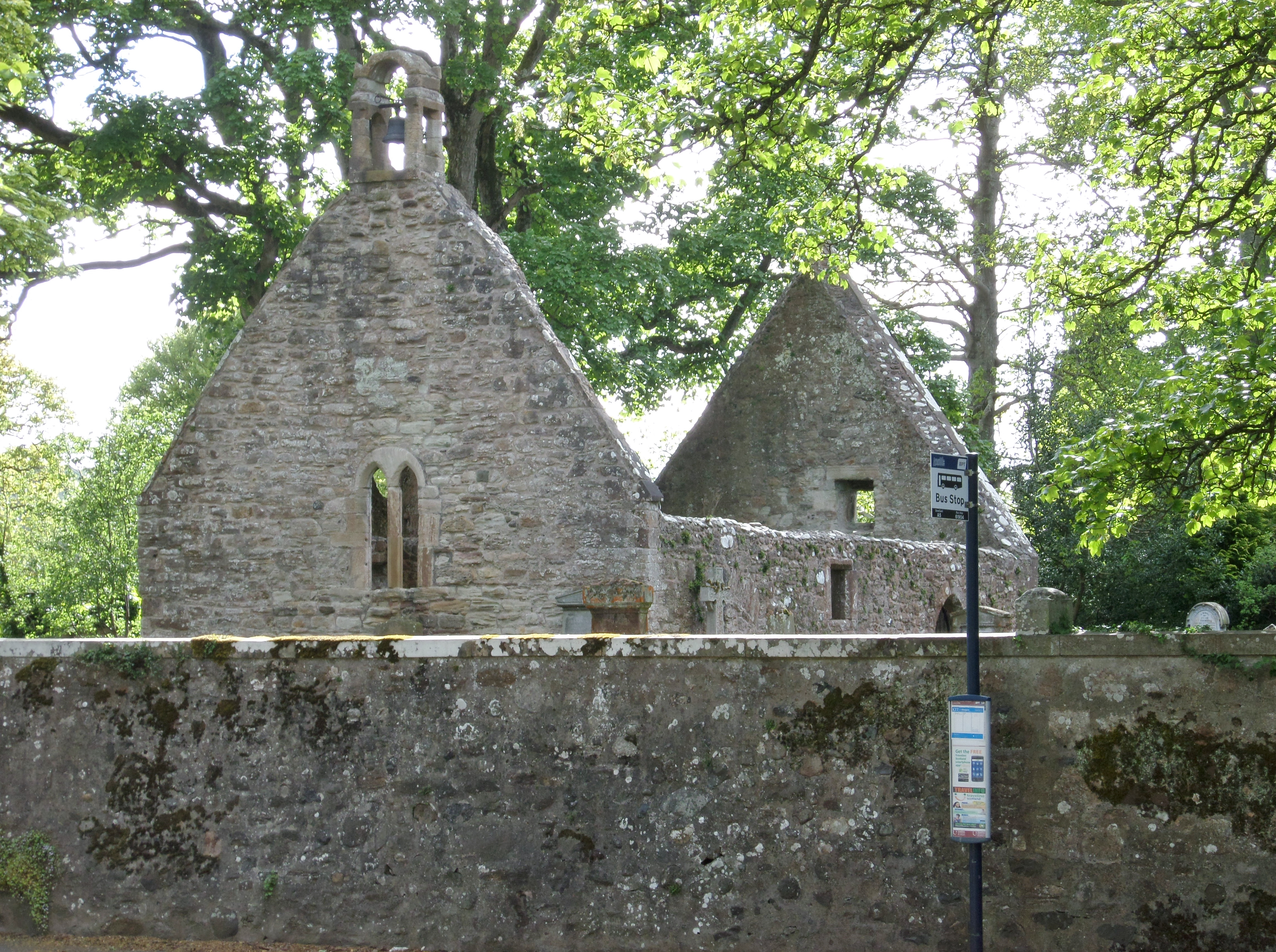 Alloway Kirk ruins, South Ayrshire, Scotland